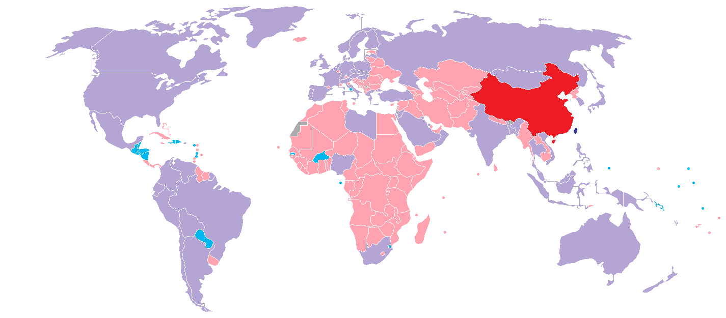 The map shows the One China policy in practice. Red represents the People's Republic of China; Blue for the Republic of China; Pink for countries that have diplomatic relations only with the PRC; Cyan for those with only the ROC; Gray for PRC recognition but also have informal ROC diplomatic ties.